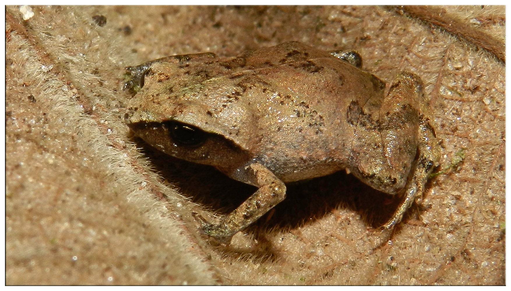 Euparkerella brasiliensis from Cachoeiras de Macacu, Rio de Janeiro State